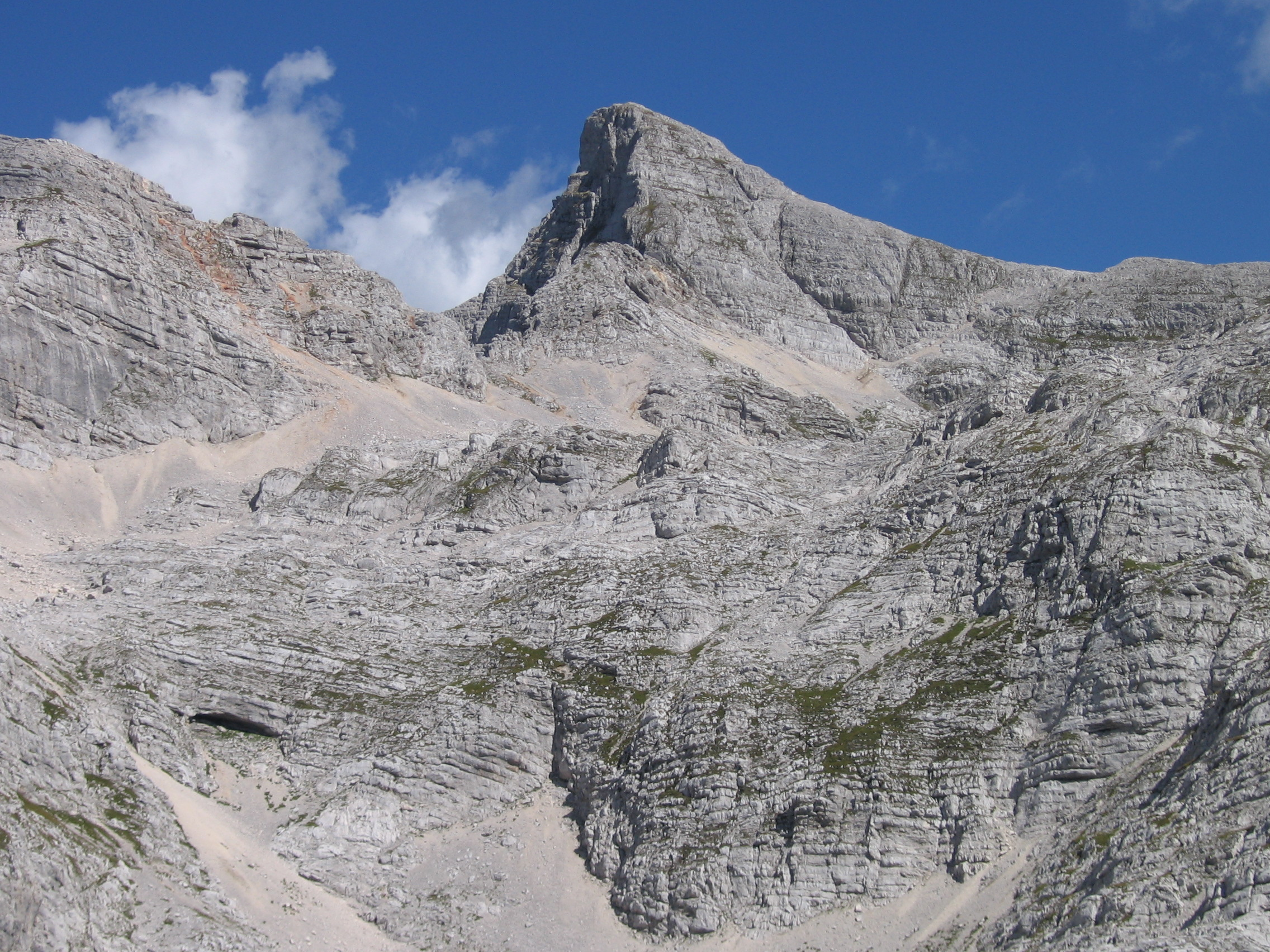 Mount Stenar, from Krishki podi